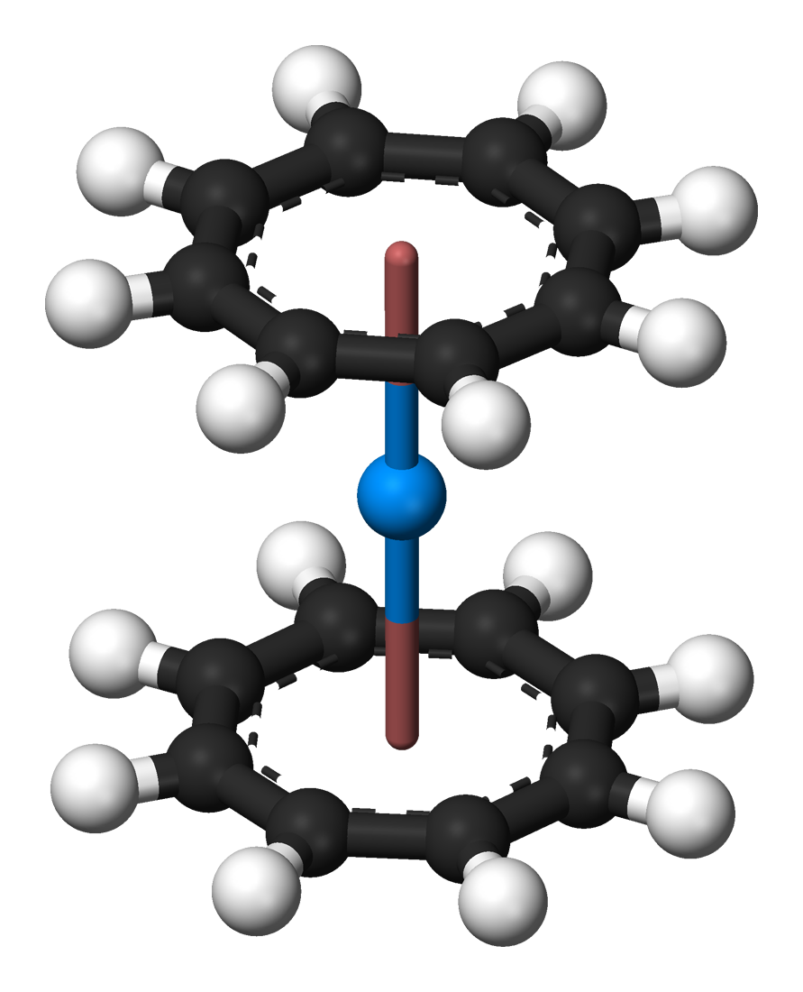 Ball-and-stick model of the uranocene molecule, U(C8H8)2